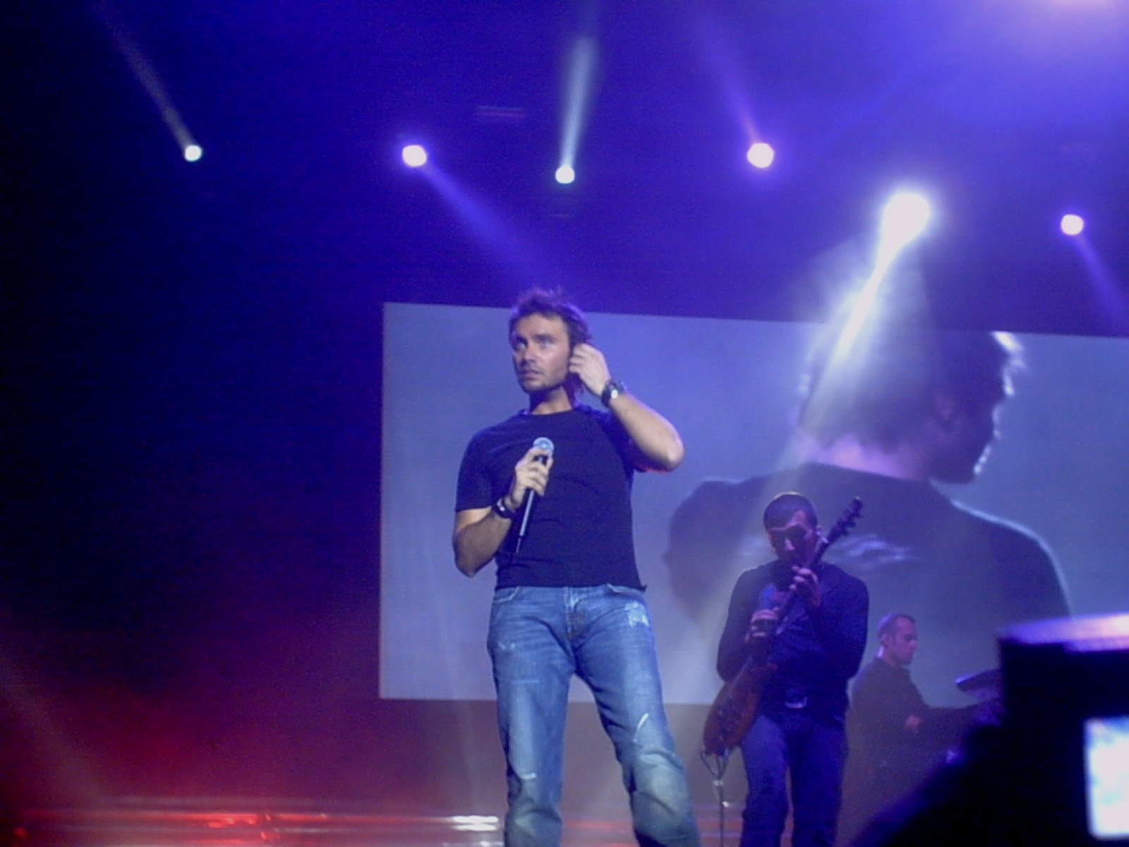 Nek in concert